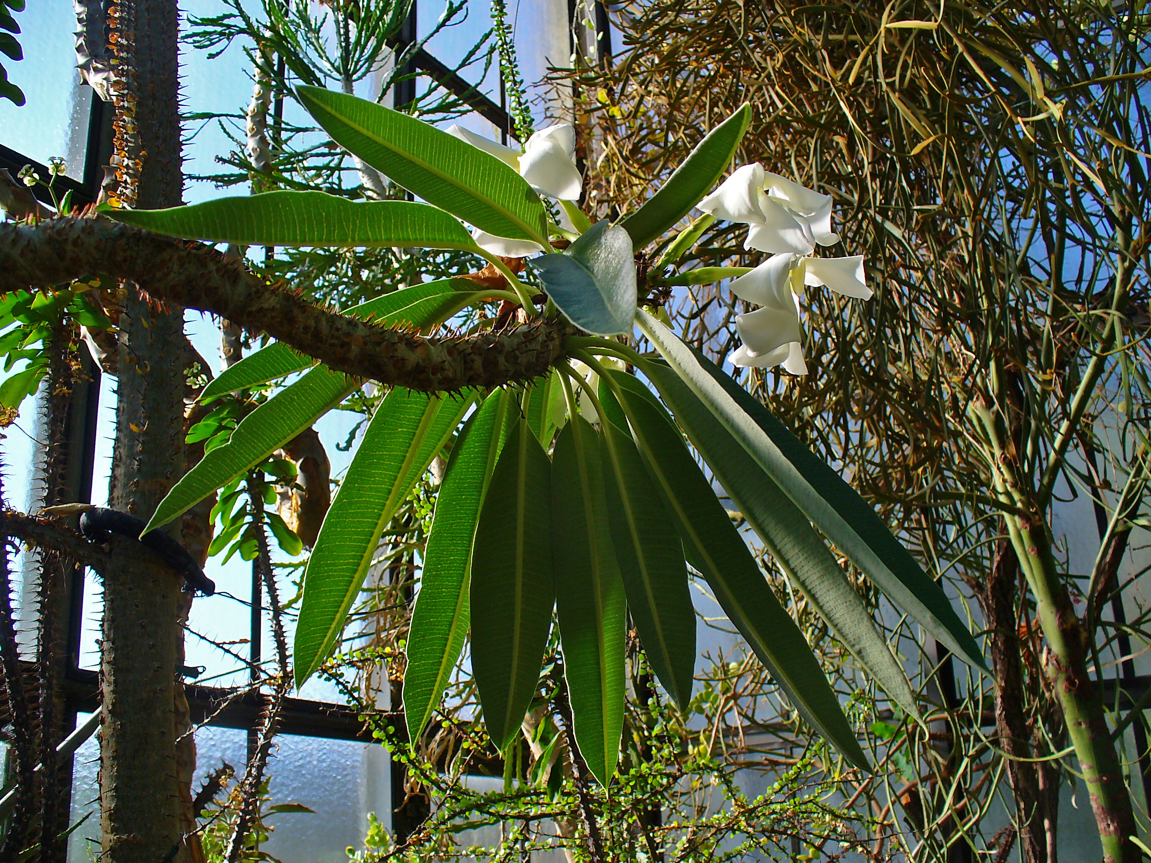 Pachypodium lamerei, Apocyanaceae, Madagascar Palm; Botanic Garden Universiy Tübingen, Germany.